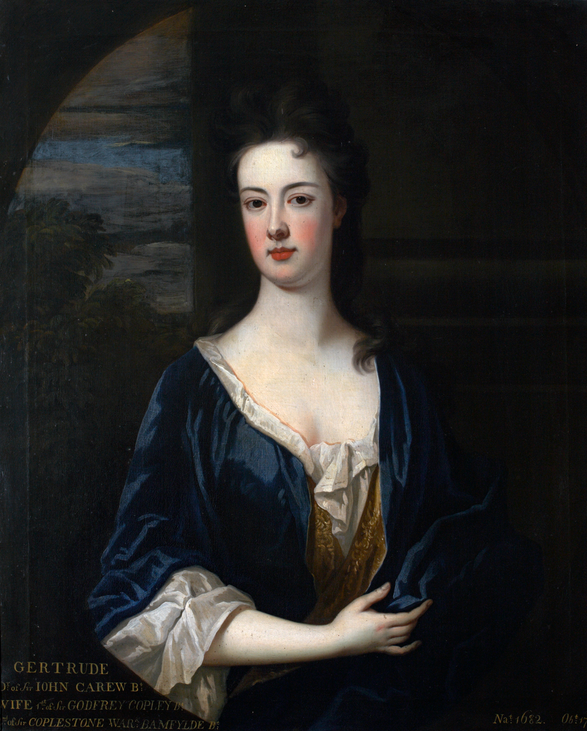 Gertrude Carew (1682–1736), a daughter of Sir John Carew, 3rd Baronet (1635-1692) of Antony, Cornwall, who married as her 2nd husband Sir Coplestone Warwick Bampfylde, 3rd Baronet (c. 1689–1727), of Poltimore and North Molton, Devon. Portrait by Charles d' Agar, oil on canvas, 91 x 78 cm. National Trust, collection of Antony House, Cornwall